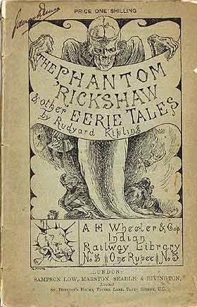 First published in India in 1888, by Allahabad: Messrs. A.H. Wheeler & Co. The short stories collection contains the first appearance of 'The Man Who Would Be King' by Rudyard Kipling